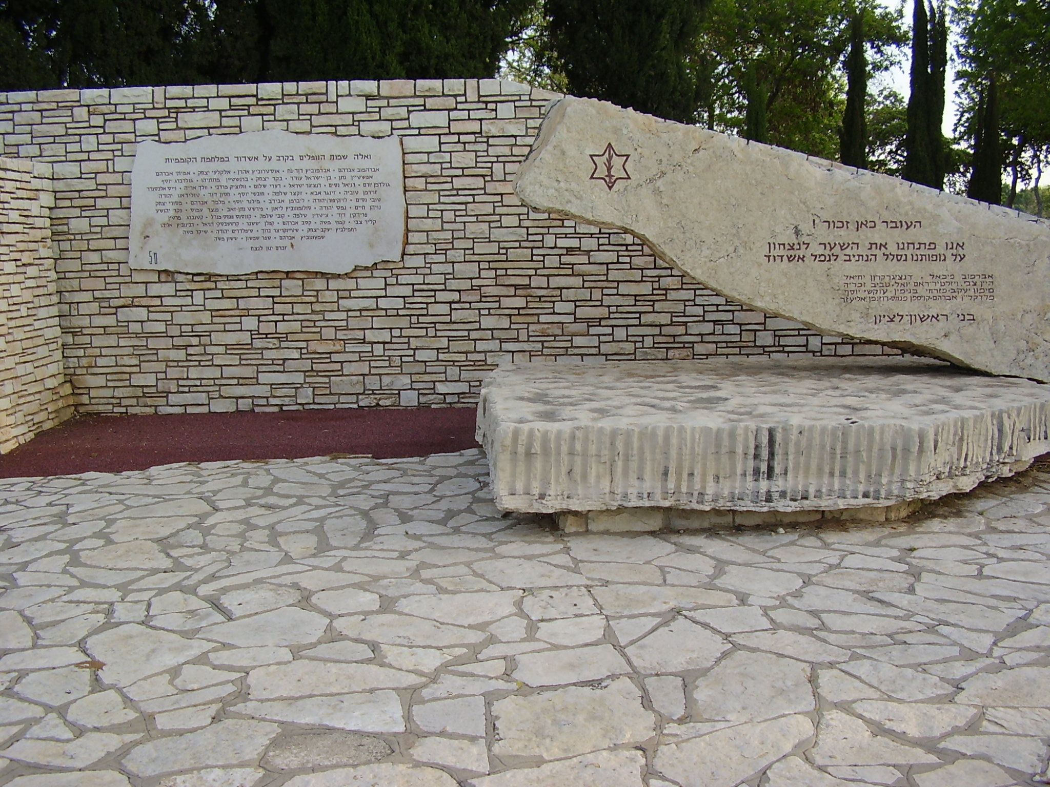 Independence war memorial in Ashdod